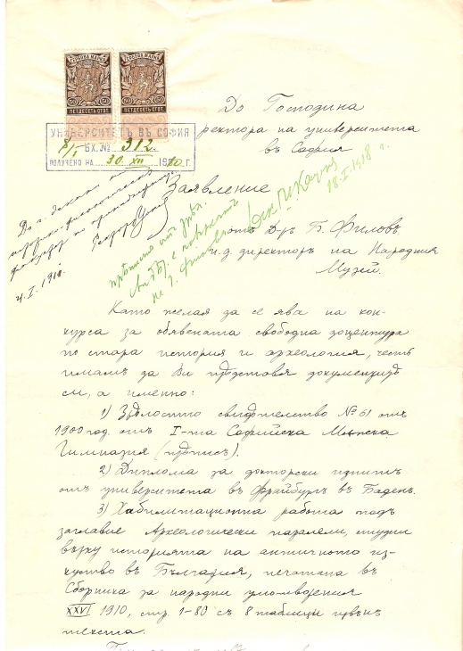 Application letter of Dr.Bodgan Filow to the Chancellour of the Sofia University.